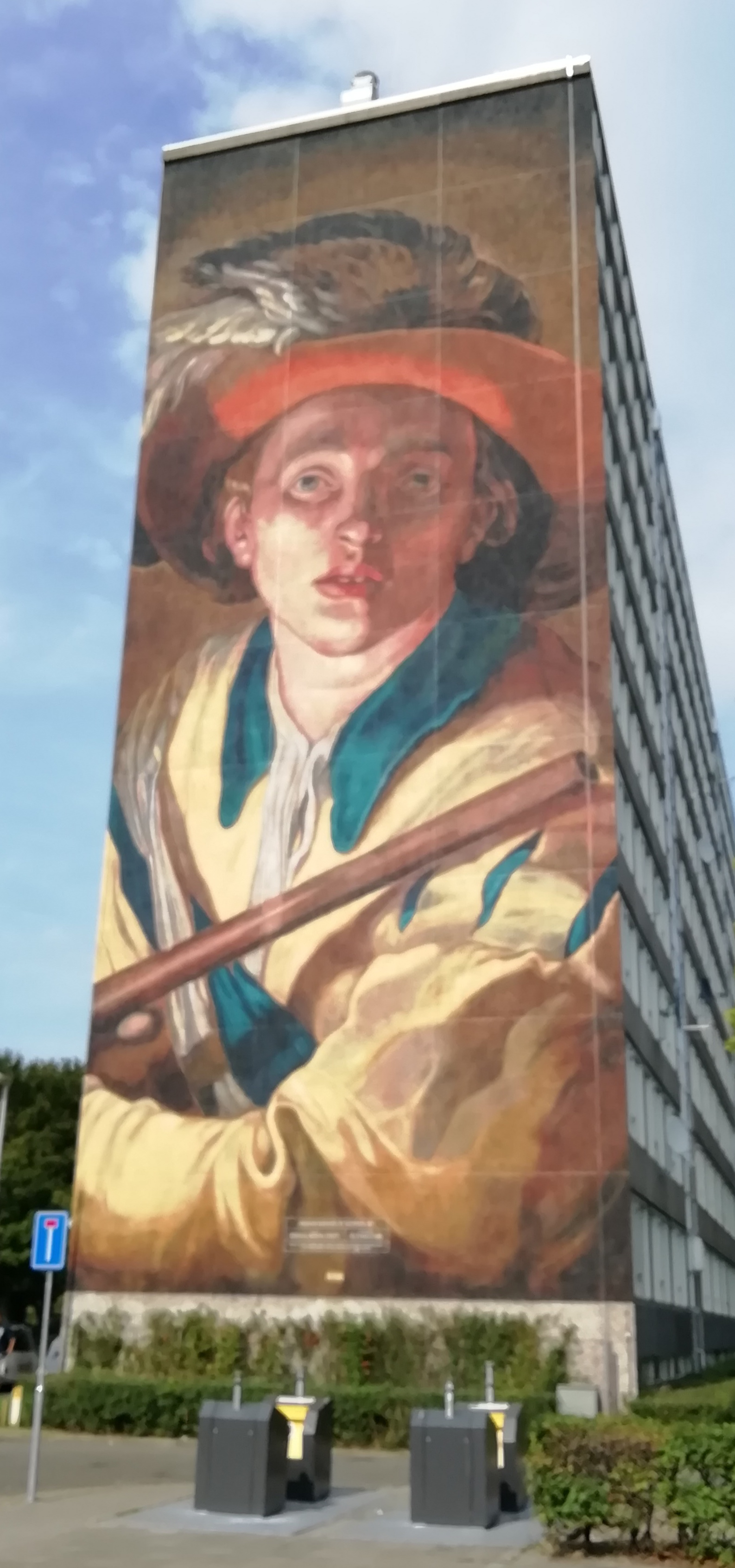 Mural in Utrecht Overvecht made in 2019